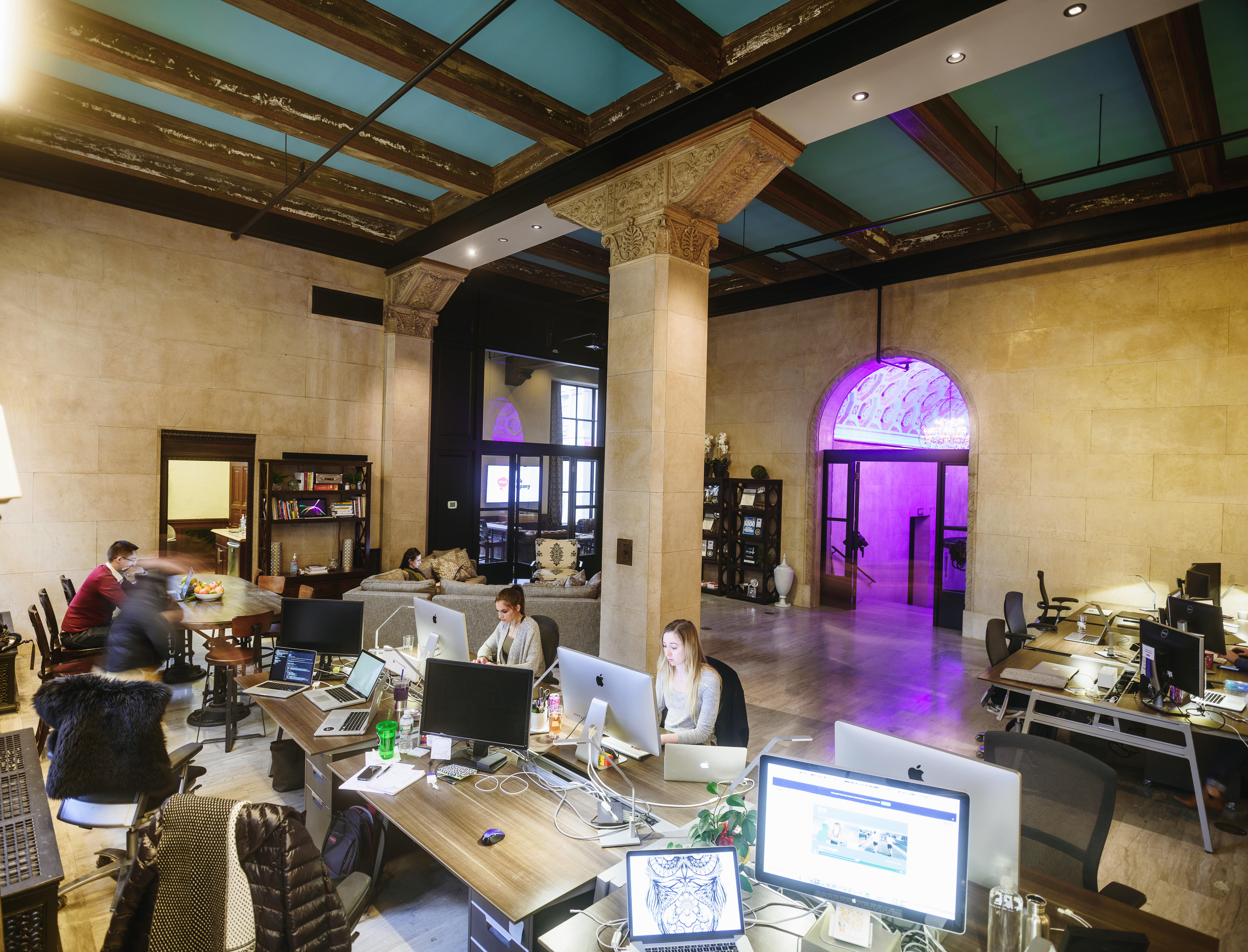 Think Company, Philadelphia Think Space (Main Workspace)